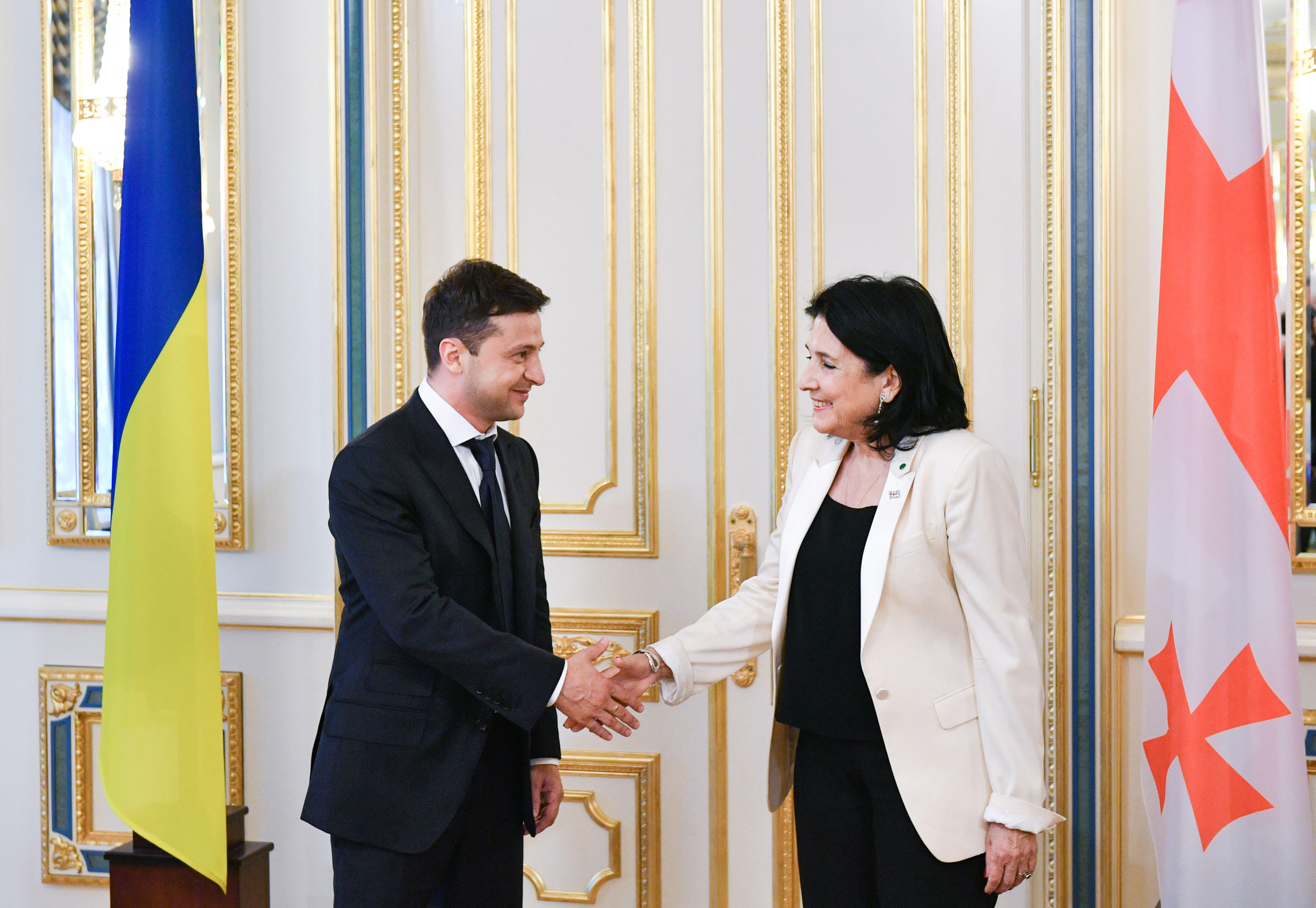 Volodymyr Zelensky with Salome Zourabichvili